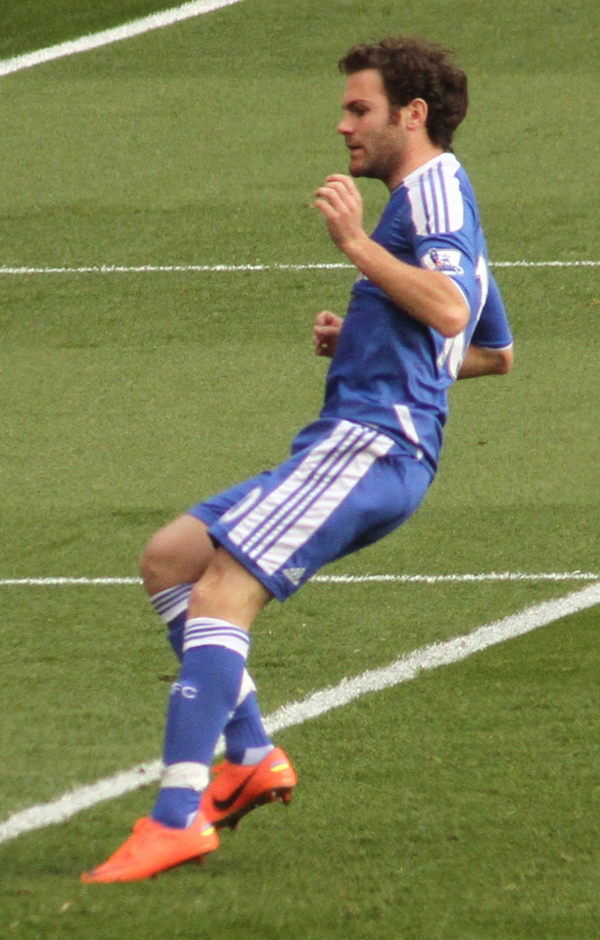 Juan Mata playing for Chelsea against Arsenal (cropped from the original image.)